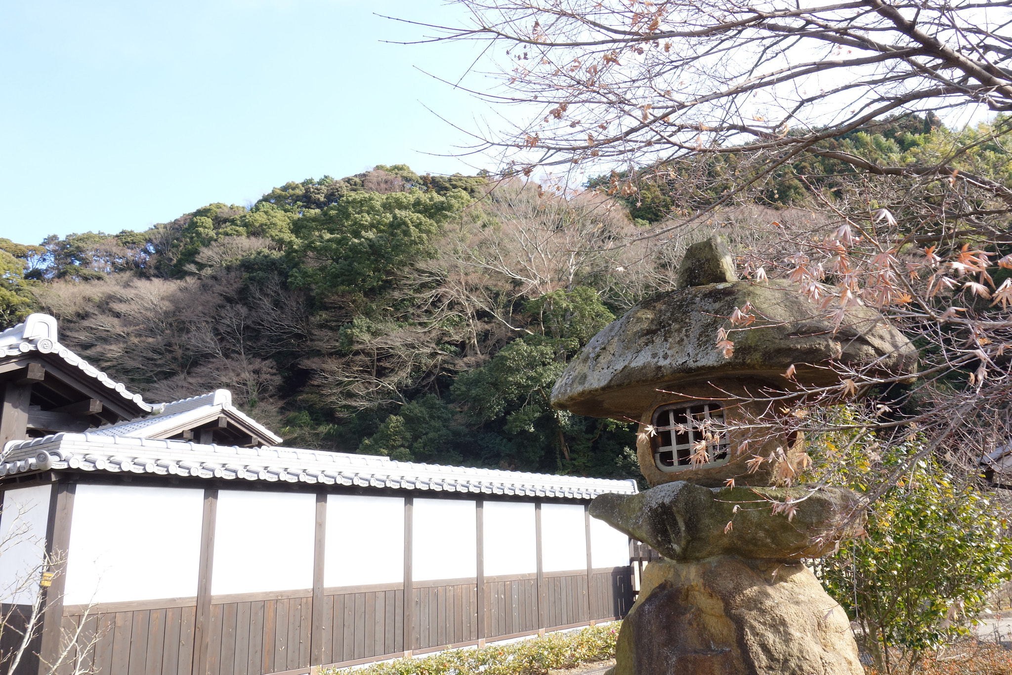 500px provided description: Okabe Juku [#House ,#Japanese]